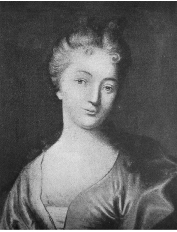 Pastel of Louise-Julie Carreau by Léon-Pascal Glain (ca. 1749-78)